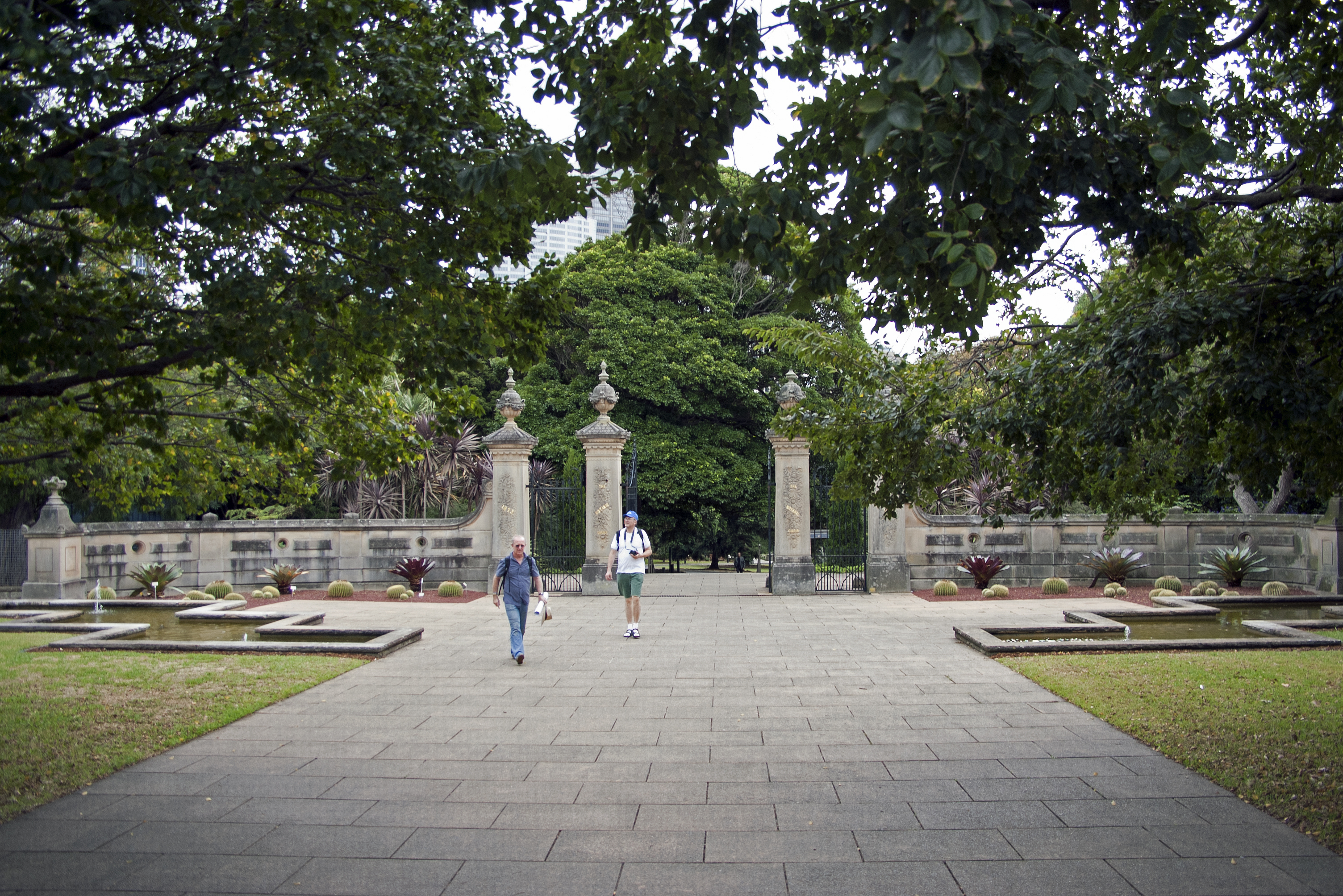 Gates at Royal Botanic Gardens viewed from Art Gallery Road in Sydney